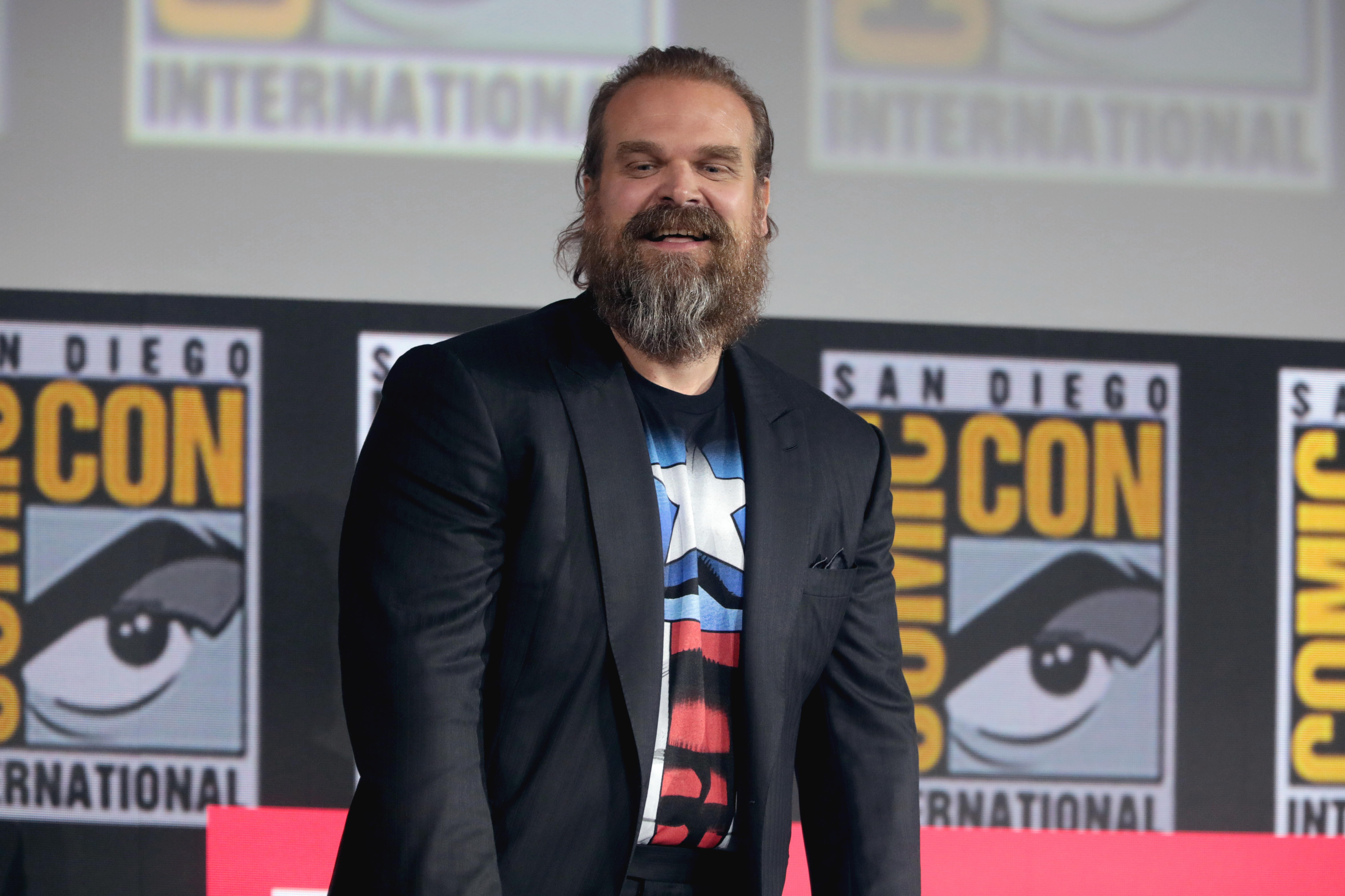 David Harbour speaking at the 2019 San Diego Comic Con International, for "Black Widow", at the San Diego Convention Center in San Diego, California.